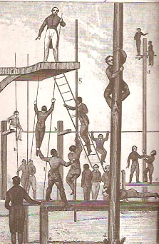 A fragment from an engraving reproduced in "The Complete Encyclopedia of Illustration", by J. G. Heck, Gramercy Books, NY, 1979. All material in this book is entirely copyright-free, having origins prior to 1851. Citation on cover: "A treasure trove of almost 12,000 illustrations, copyright-free and clearly reproducible."